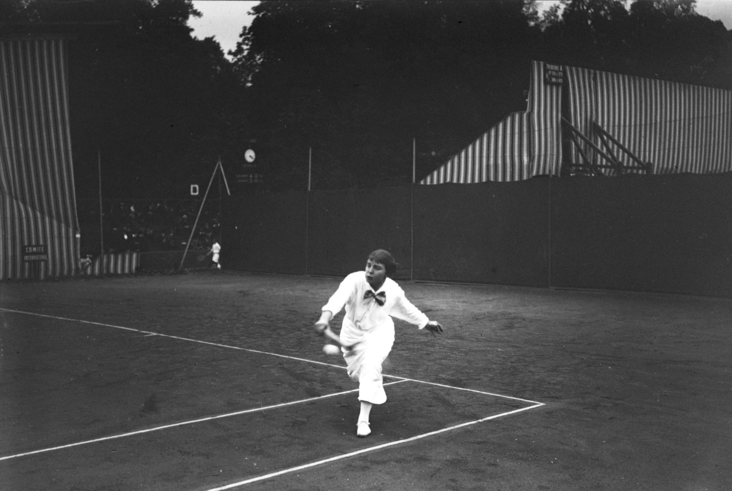 Sigrid Fick